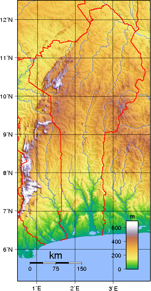 Topograpphic map of Benin. Created with GMT from SRTM data.